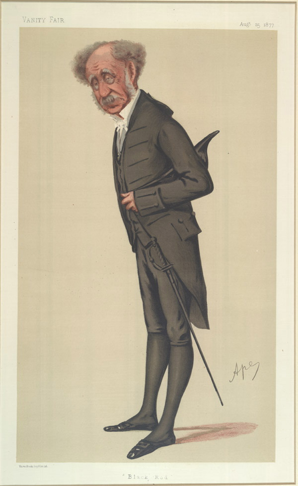 Men of the Day No.156: Caricature of Gen The Rt Hon Sir William Thomas Knollys PC KCB. Caption reads: "Black Rod"